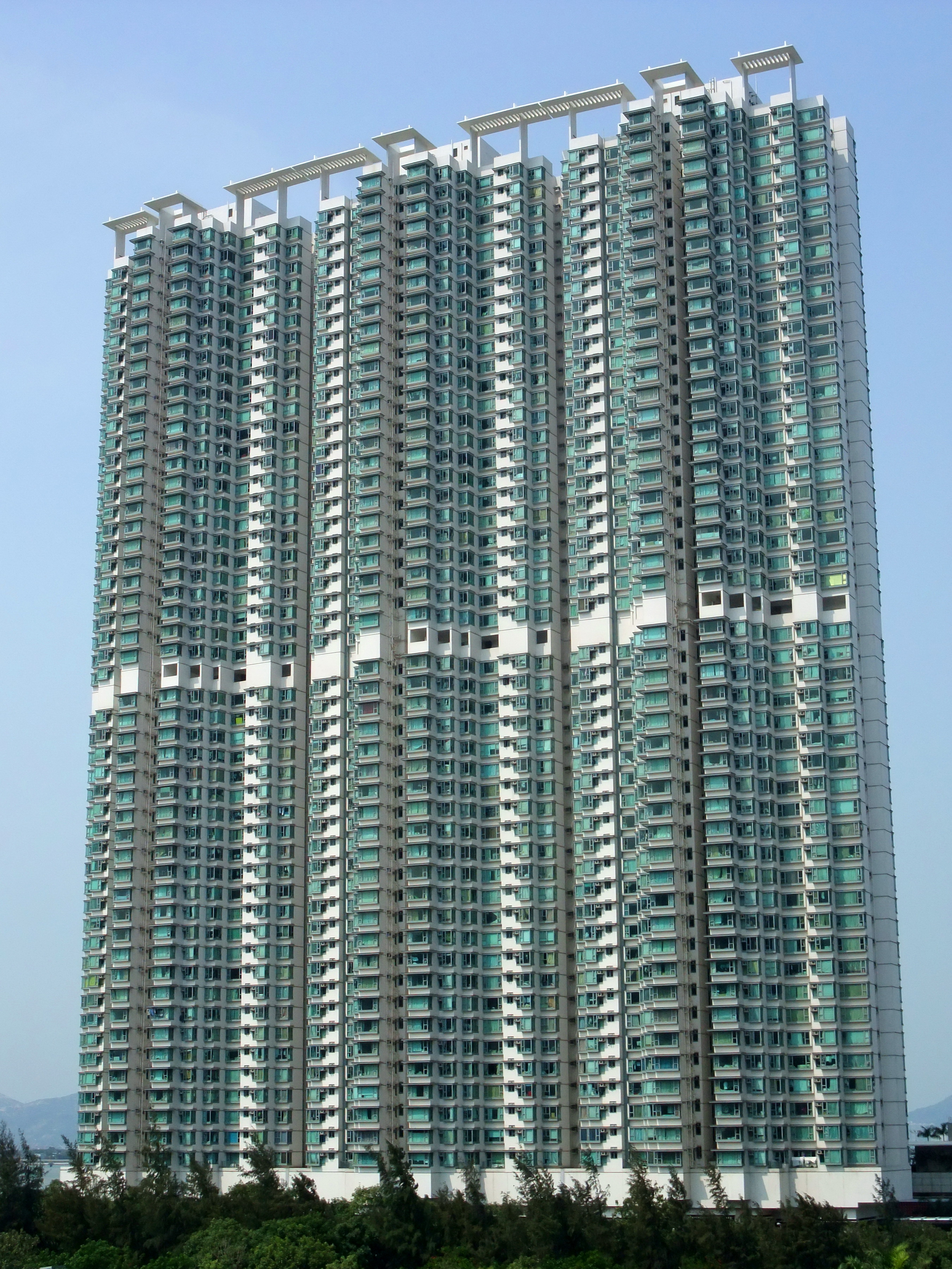 Seaview Crescent, Tung Chung, Hong Kong.